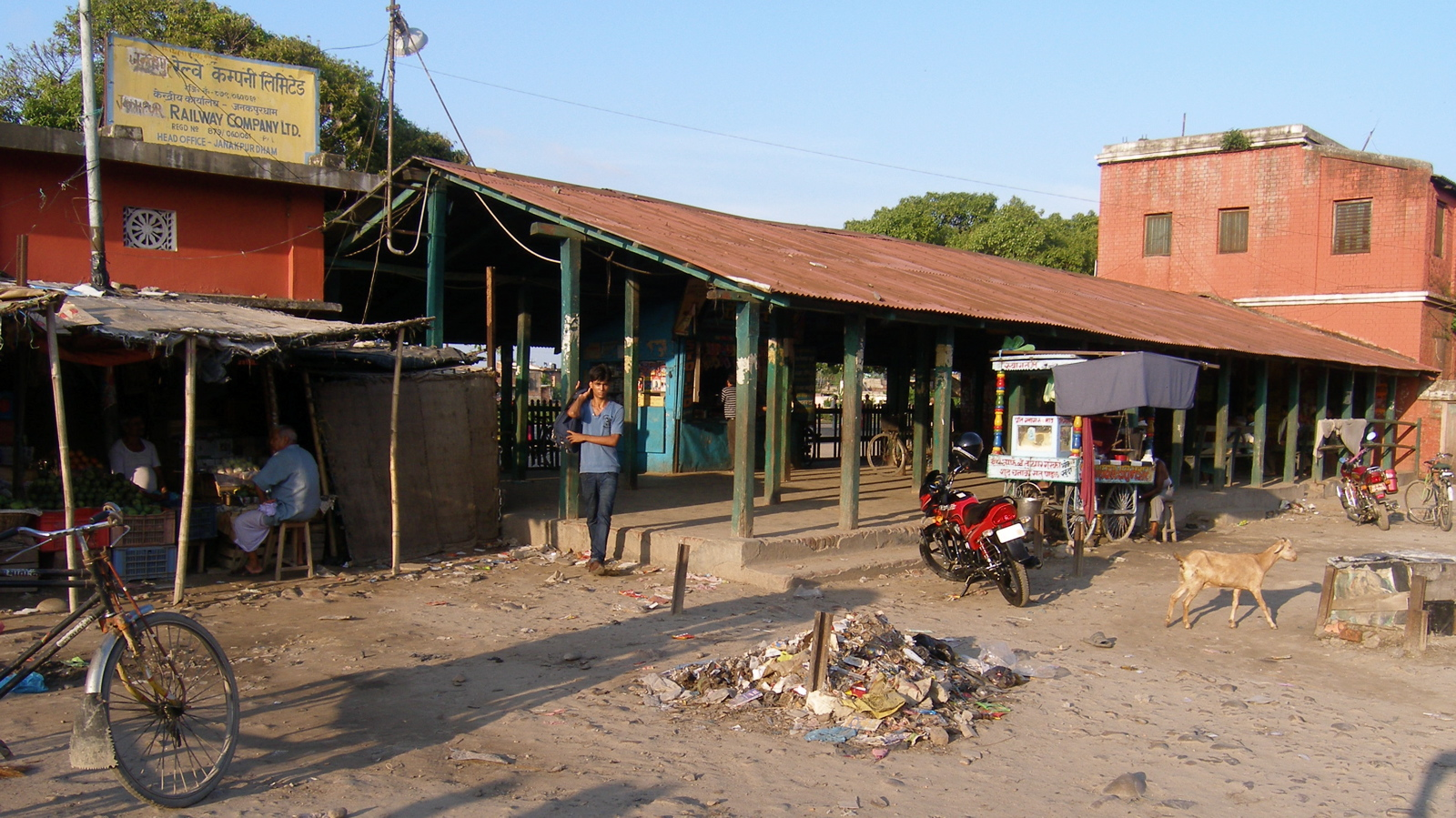 Railway station in Janakpur, Nepal